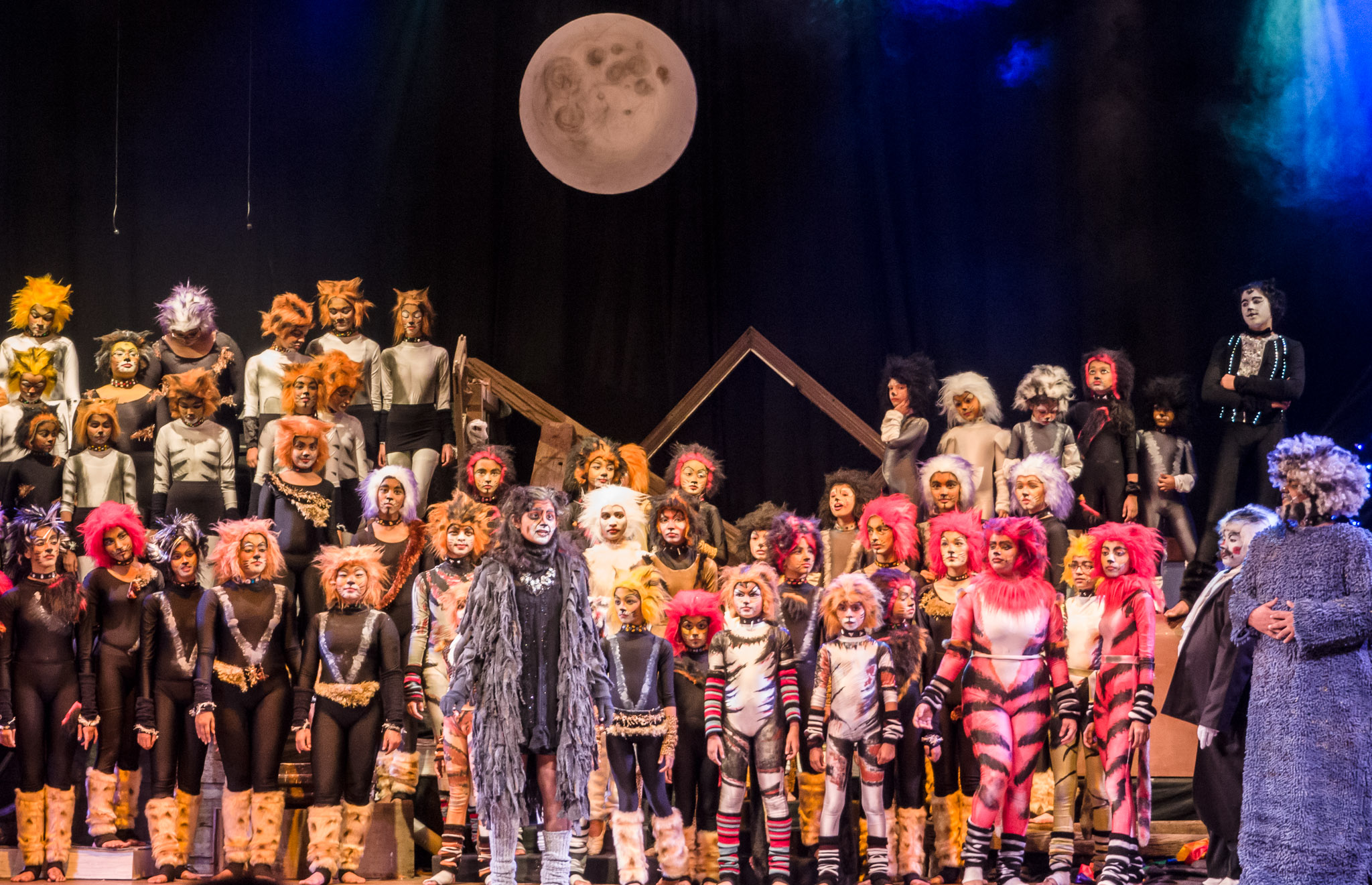 At the Chowdiah Memorial Hall, Bangalore